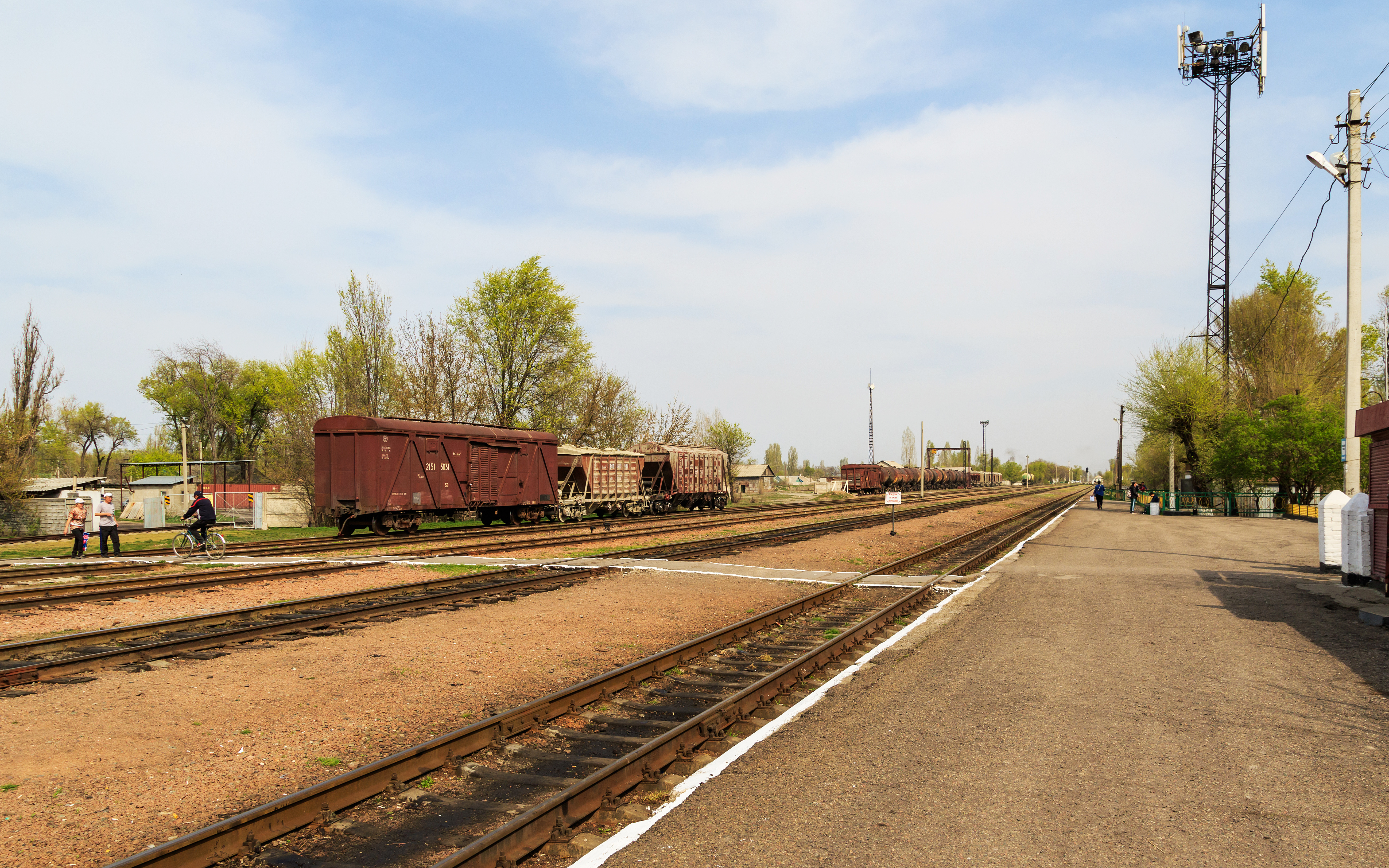 The railway station in Kant, Chuy Region, Kyrgyzstan